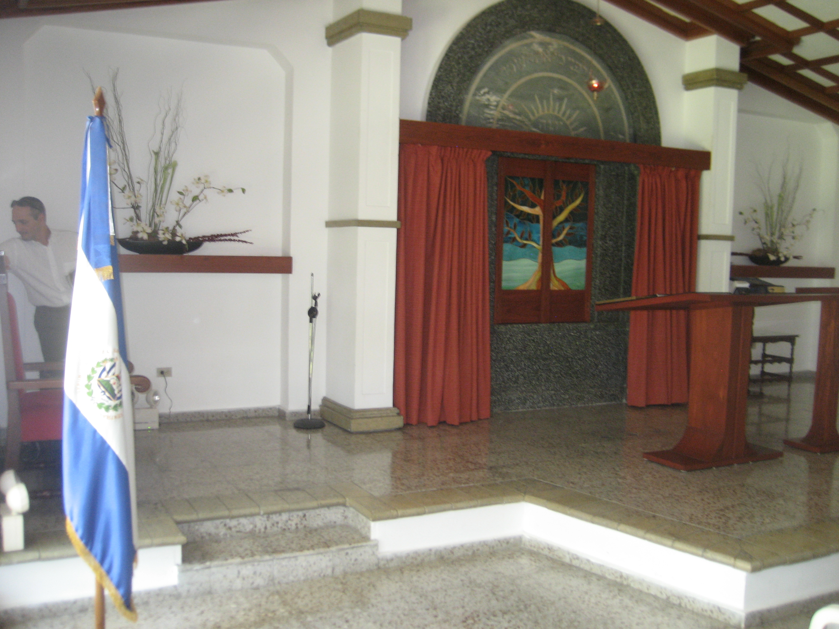 Inside the synagogue of the Communidad Israelita de El Salvador.